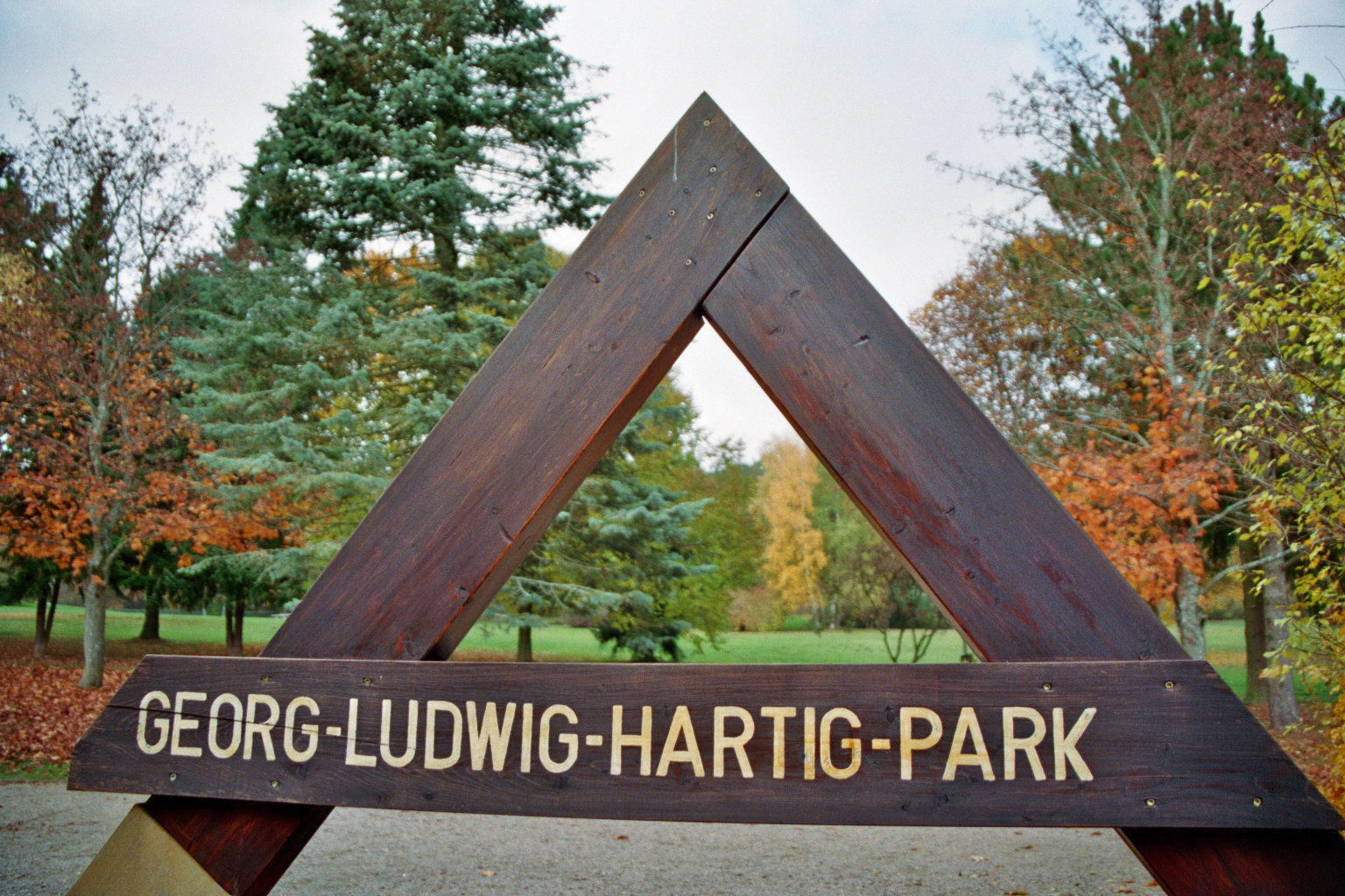 Georg-Ludwig-Hartig-Park in Gladenbach